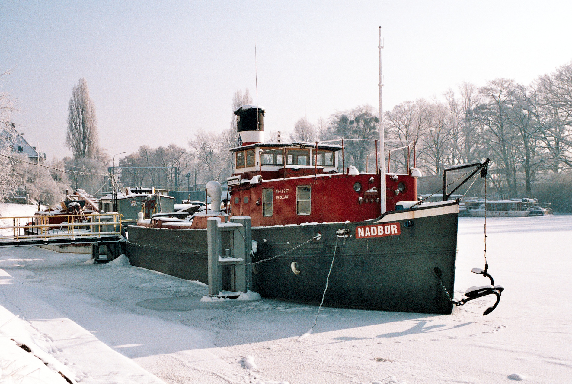 HP Nadbor ship